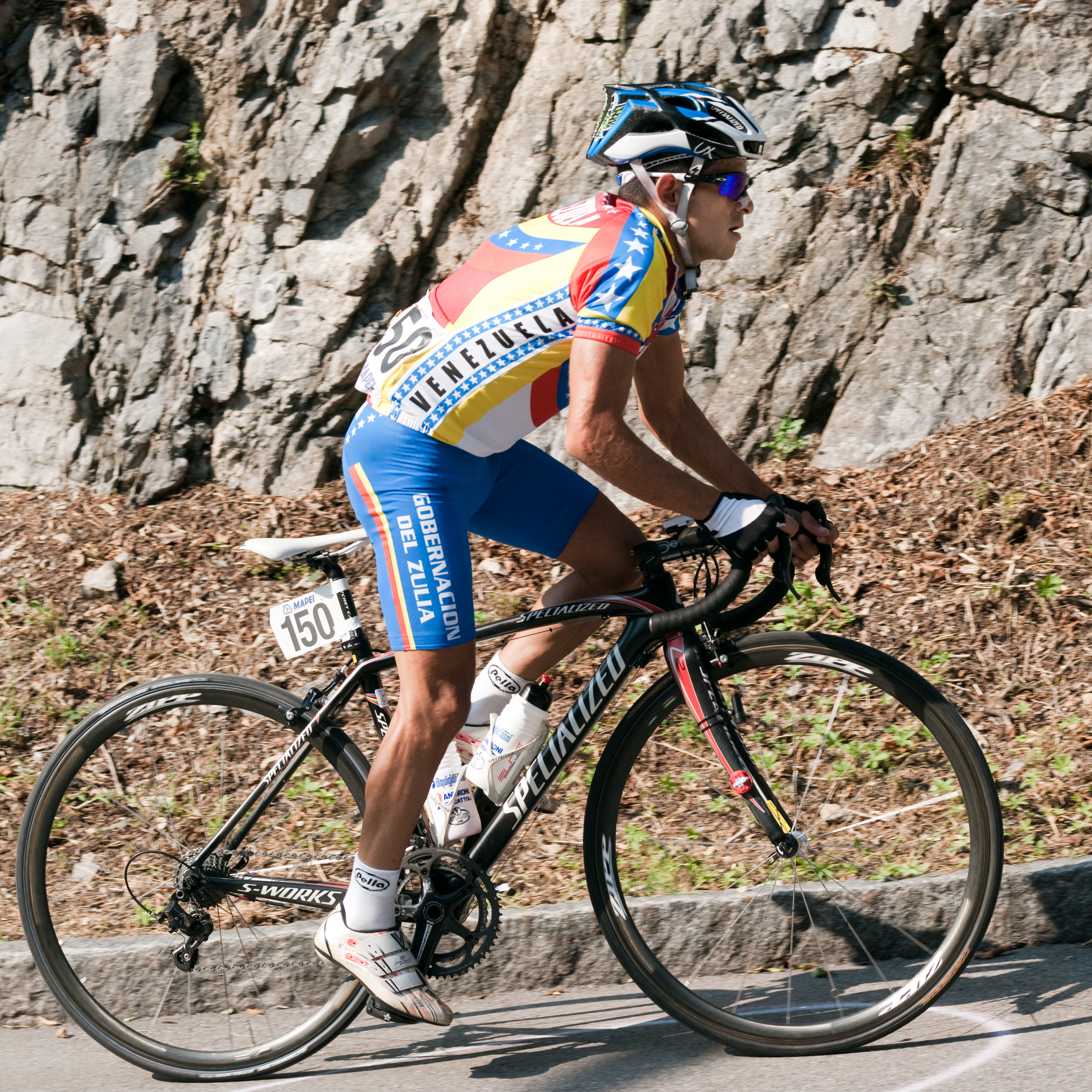 José Rujano Guillen during the 2009 UCI Road World Championships in Mendrisio, Switzerland.